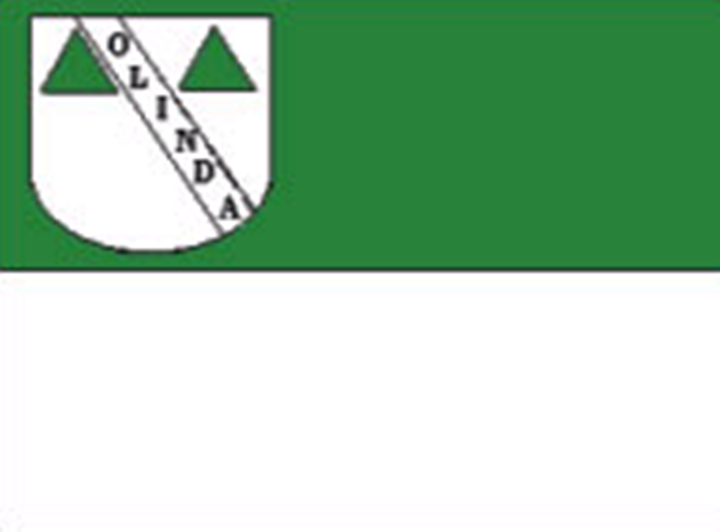 Old flag of Olinda, Pernambuco, Brazil